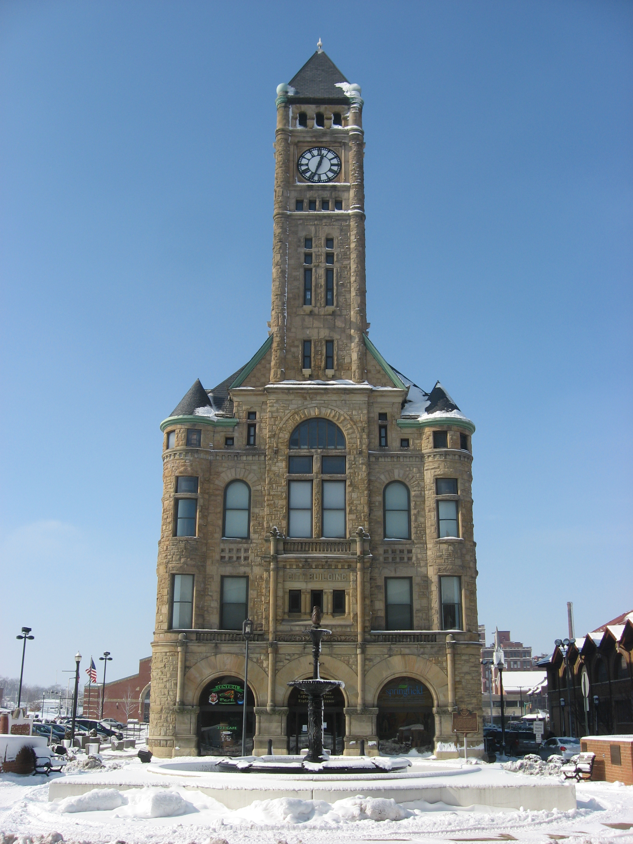 Eastern front of the former municipal building (now the Clark County Heritage Center) in Springfield, Ohio, United States, located at 117 S. Fountain Avenue. Built in 1888, it is listed on the National Register of Historic Places.